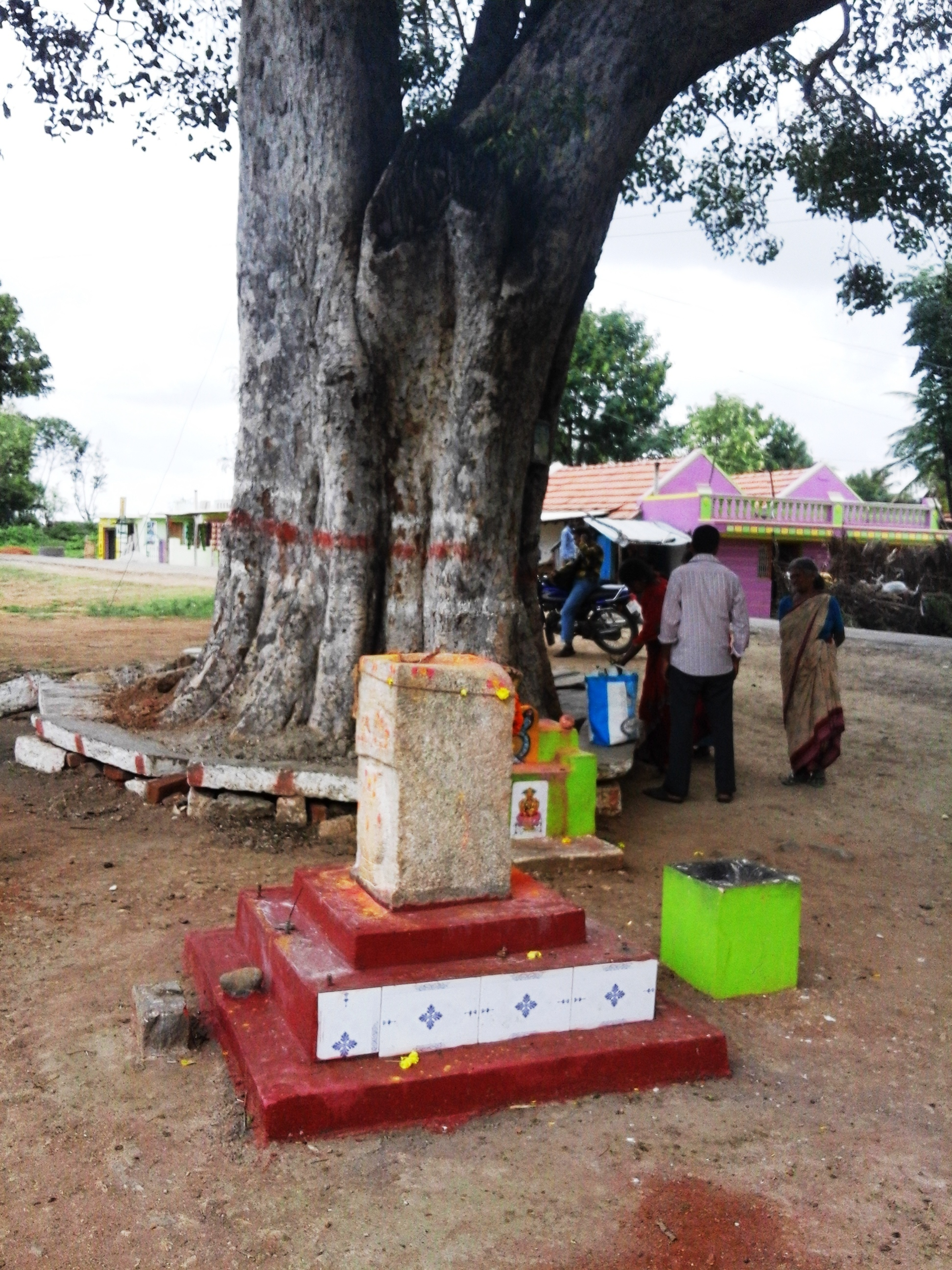 Kavalande village, Nanjangud Taluk, Mysore District, Karnataka state, India.